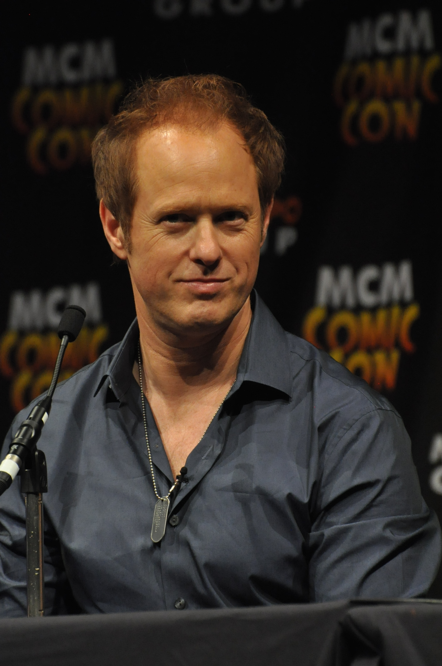 DSC_3136 MCM London Comic Con, Once Upon A Time Panel with Jane Espenson, Raphael Sbarge, Keegan Connor Tracy and Jessy Schram.